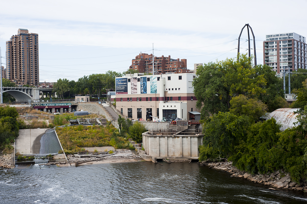 View of SAFL from the river